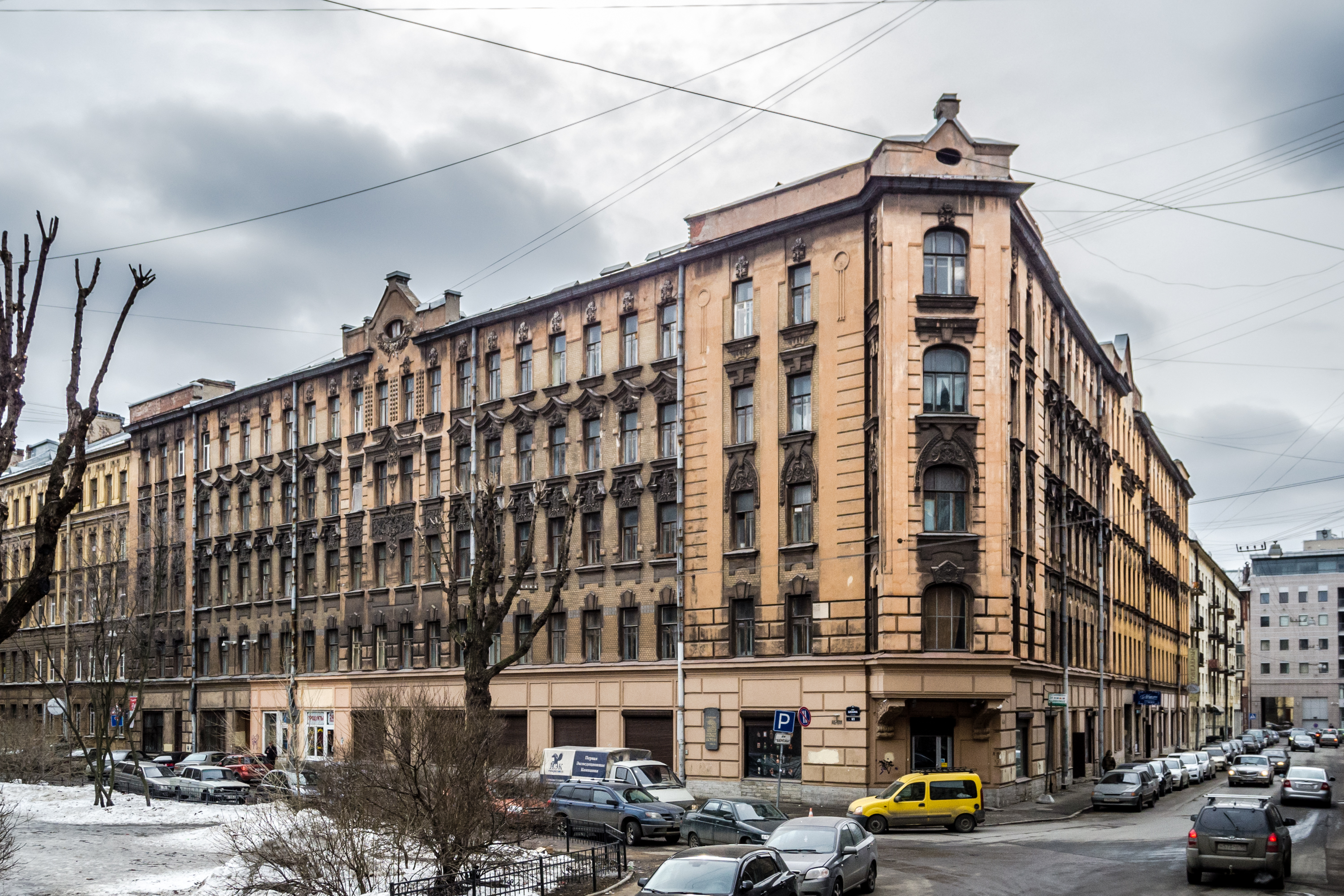 Saint Petersburg, 6, Blokhina street